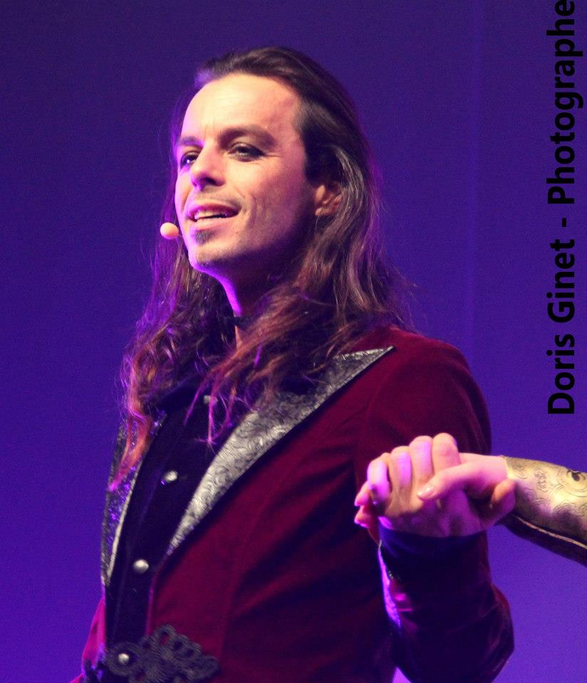 Nuno Resende plays the part of Thurzo in the musical Erzsebeth.